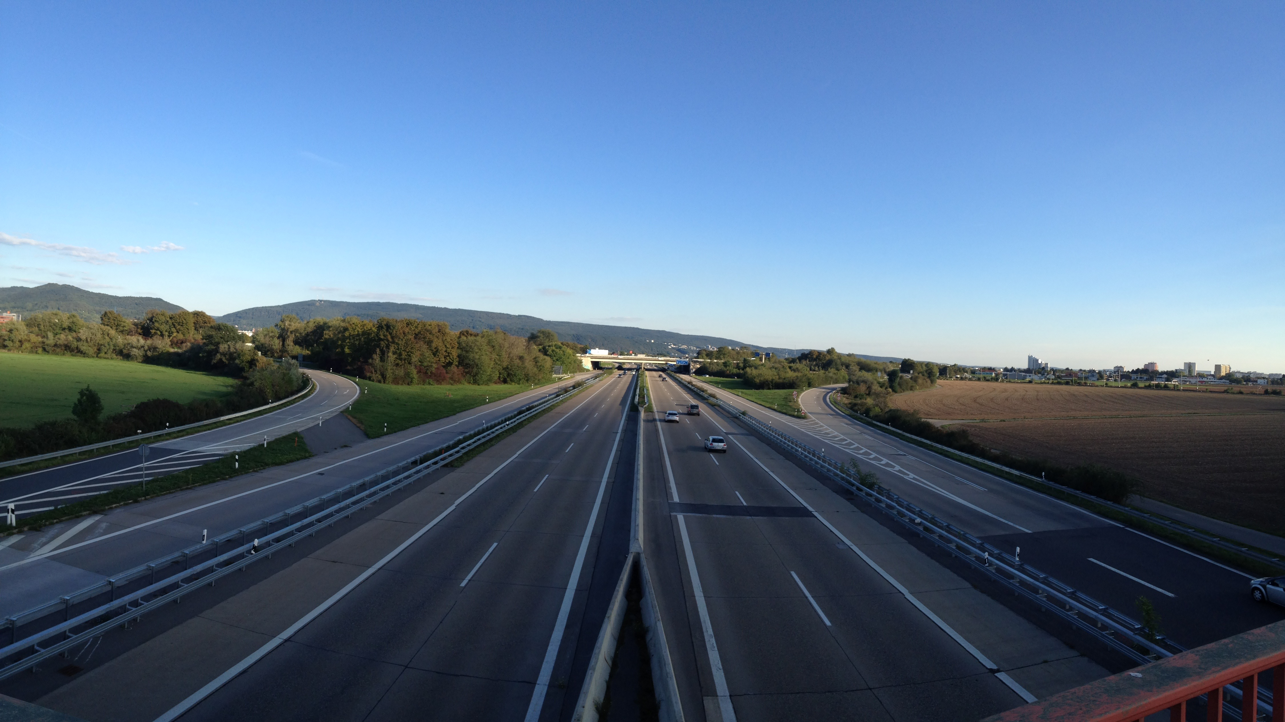 In the picture there is a intersection near Heidelberg in Germany.